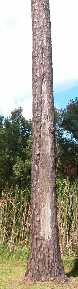 Old lightning scar on pine tree, Georgetown, SC